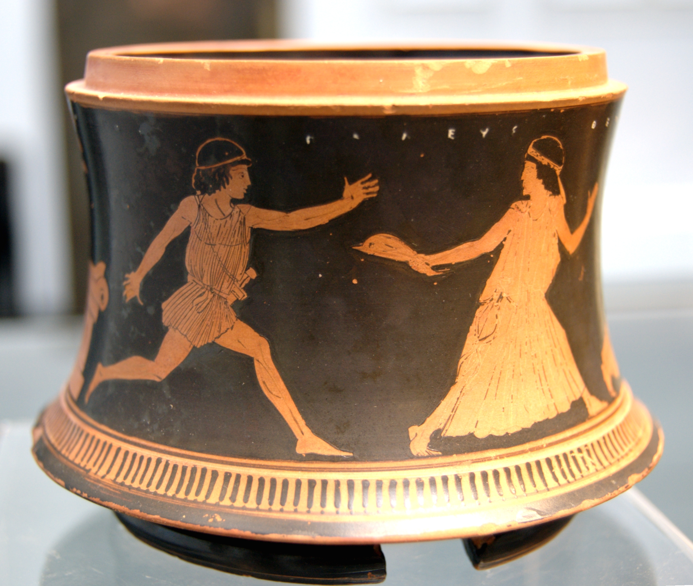 Peleus pursuits Thetis. Attic red-figure pyxis, ca. 460 BC.